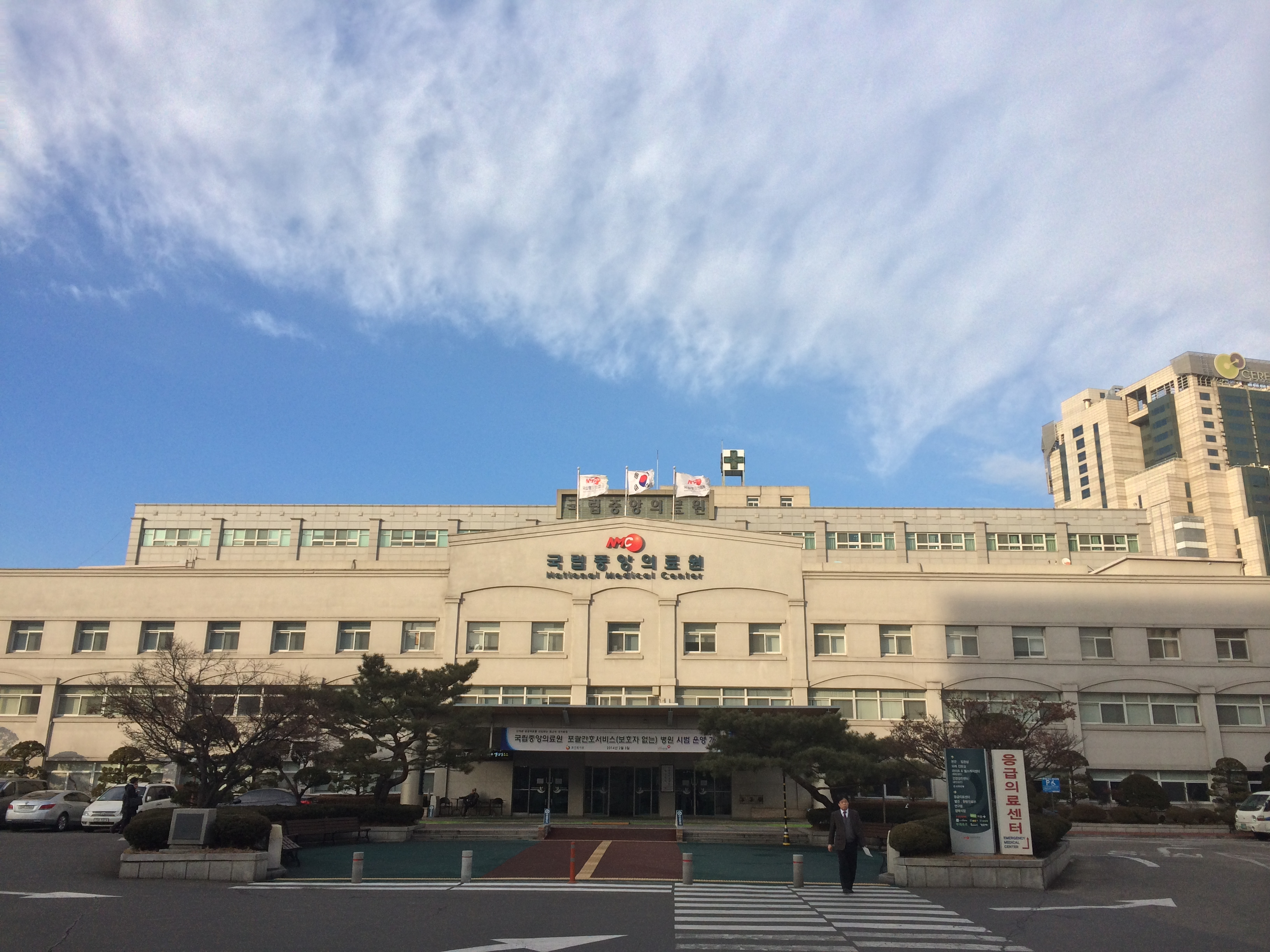 National Medical Center, Seoul, South Korea.